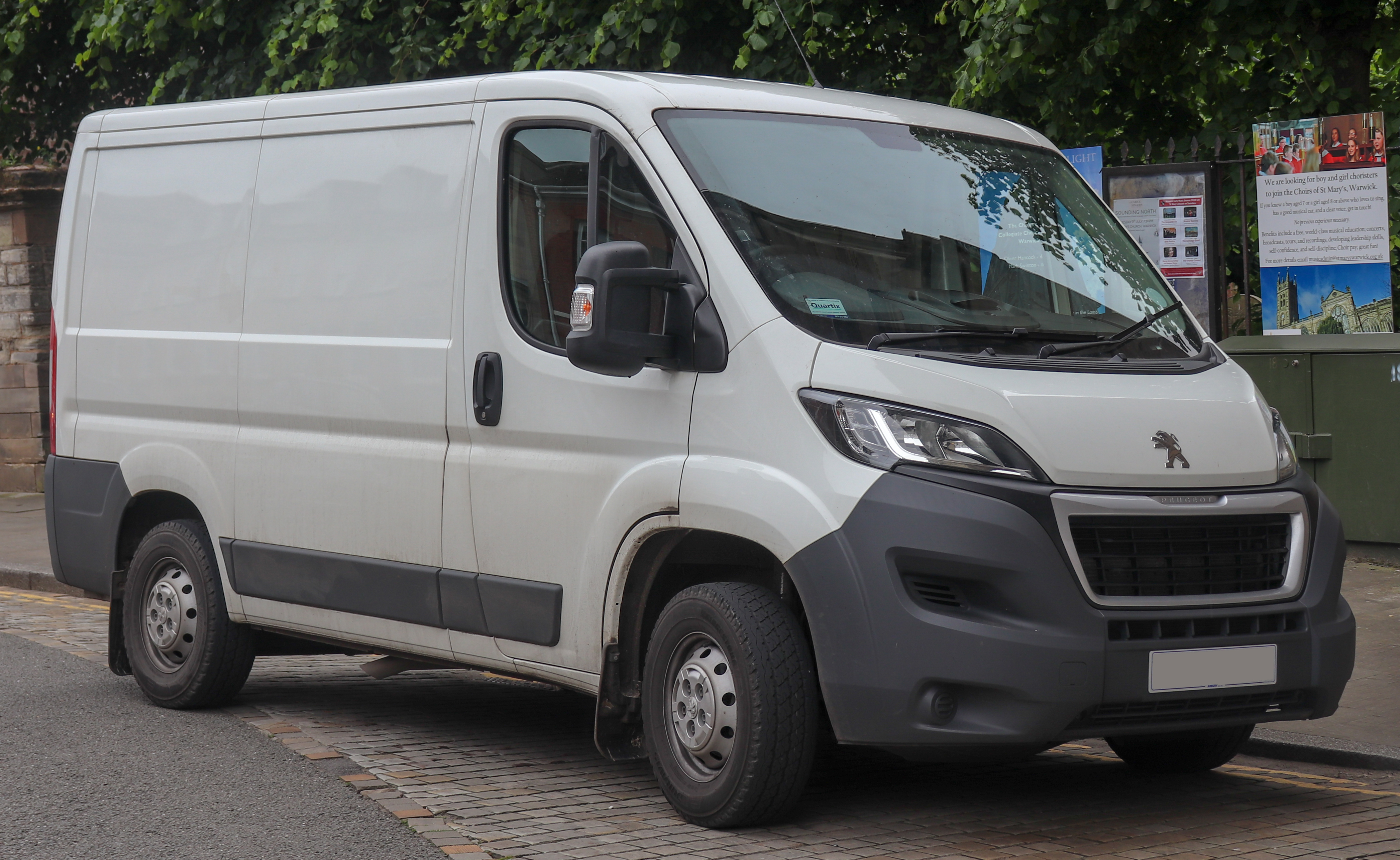 2017 Peugeot Boxer 330 PRO L1H1 BlueHDi 2.0 Taken in Warwick